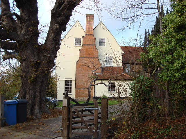 Benton End House